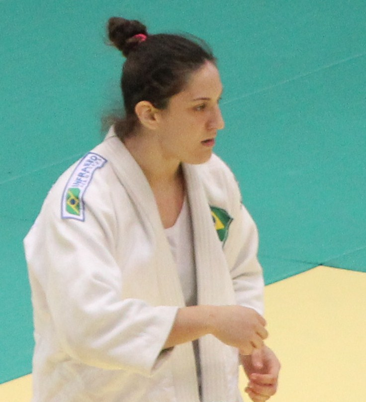 Brazilian judoka Mayra Aguiar during the 2010 World Judo Championships held in Tokyo, Japan